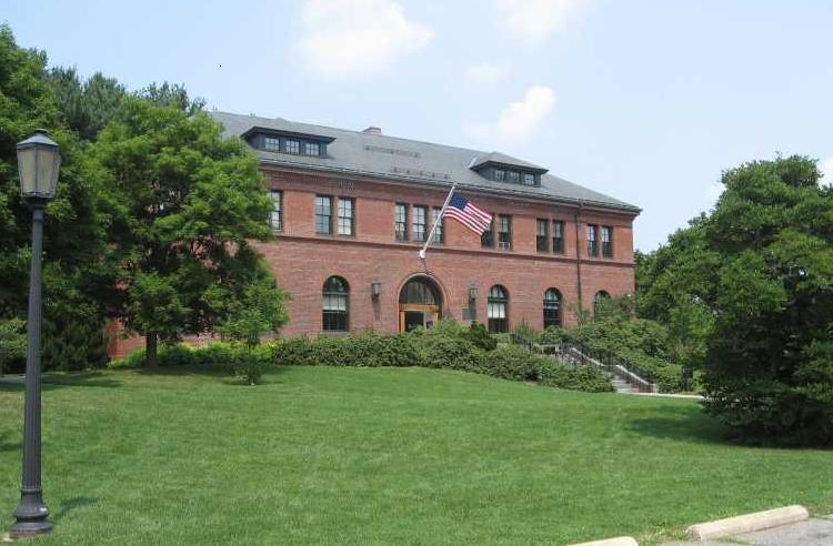 The Hunnewell Building, Arnold Arboretum headquarters. The Hunnewell building was designed by architect Alexander Wadsworth Longfellow, Jr. in 1892 and constructed with funds donated by philanthropist-horticulturalist Horatio Hollis Hunnewell in 1903. MarkinBoston's photo, August 2007.